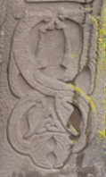 Cropped from original at File:Aberlemno Churchyard Cross Slab 20090616 cross.jpg.